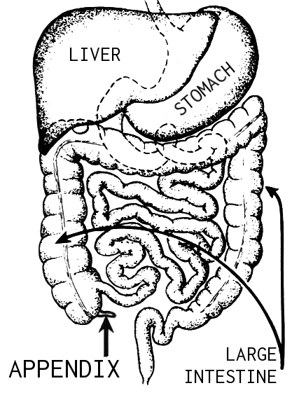 Line art drawing of an appendix.